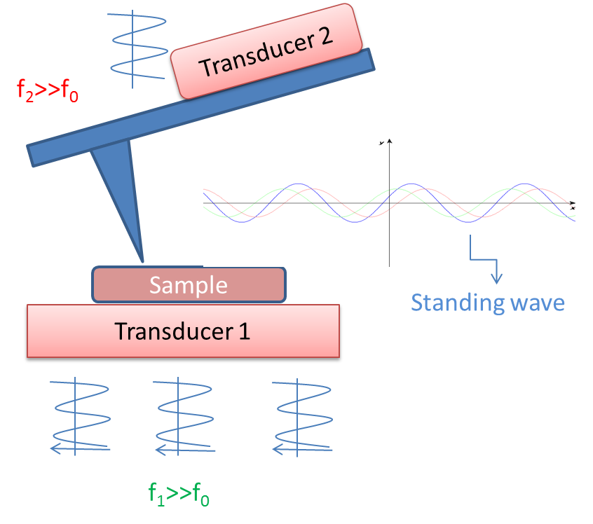 interference of two waves produces a standing wave and the phase and amplitude of the standing wave will determine the defects or other properties of materials.